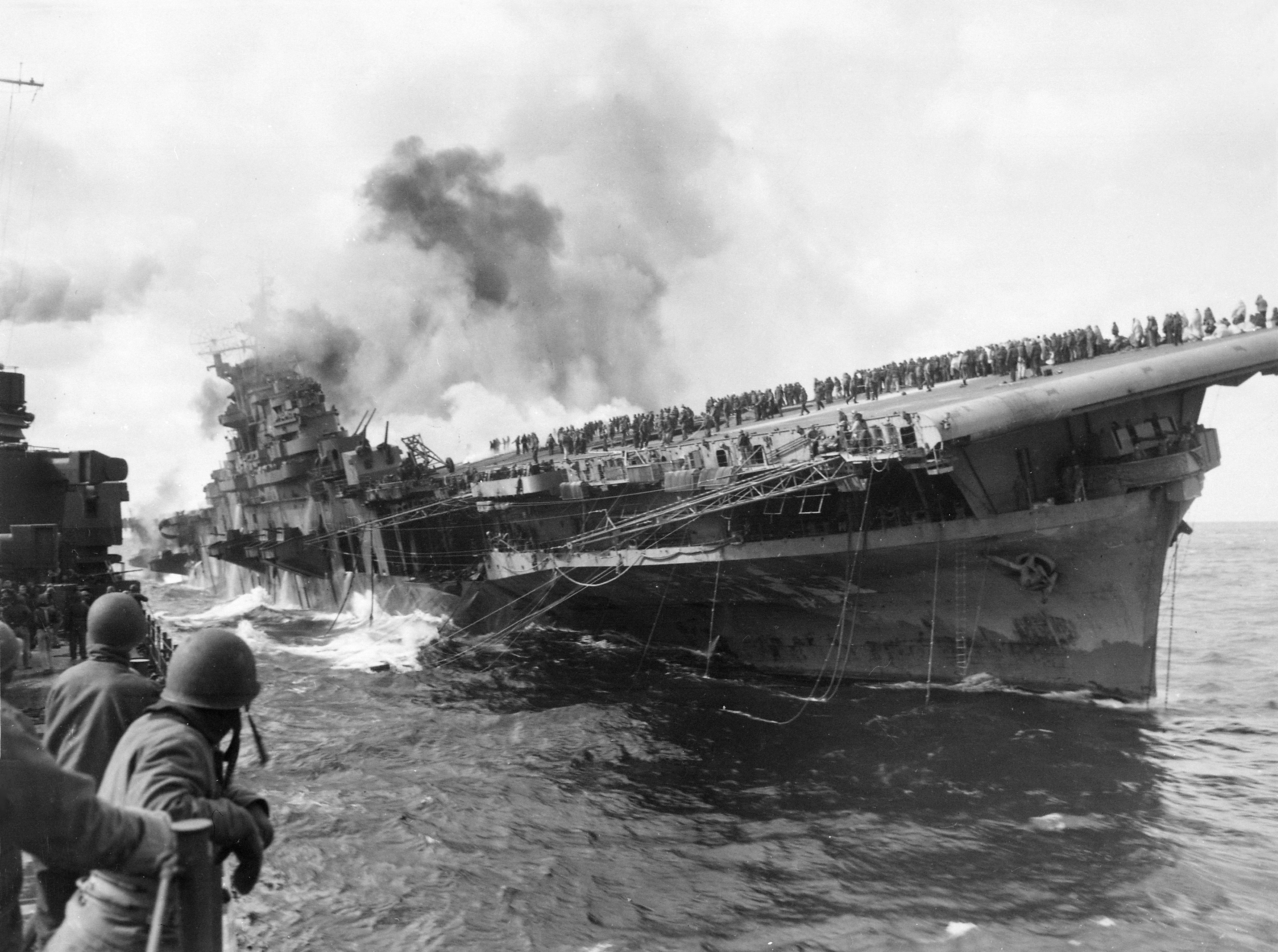 Aircraft carrier USS Franklin (CV-13) attacked during World War II, March 19, 1945. Photographed by PHC Albert Bullock from the cruiser USS Santa Fe (CL-60), which was alongside assisting with firefighting and rescue work. Photo #: 80-G-273880, Official U.S. Navy Photograph, now in the collections of the National Archives. The carrier is afire and listing after she was hit by a Japanese air attack while operating off the coast of Japan - the crew is clearly seen on flight deck. After the attack the vessel lay dead in the water, took a 13° starboard list, lost all radio communications, and broiled under the heat from enveloping fires. Many of the crewmen were blown overboard, driven off by fire, killed or wounded, but the hundreds of officers and enlisted who voluntarily remained saved their ship through sheer tenacity. The casualties totaled 724 killed and 265 wounded, and would have far exceeded this number if it were not for the exemplary work of many survivors. N.B. Caption by User:Dna-webmaster compiled from original information from the U.S. Navy and the Wikipedia article USS Franklin (CV-13).